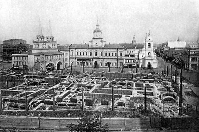 View on Old Moscow Mint taken during the construction of the Historical Museum